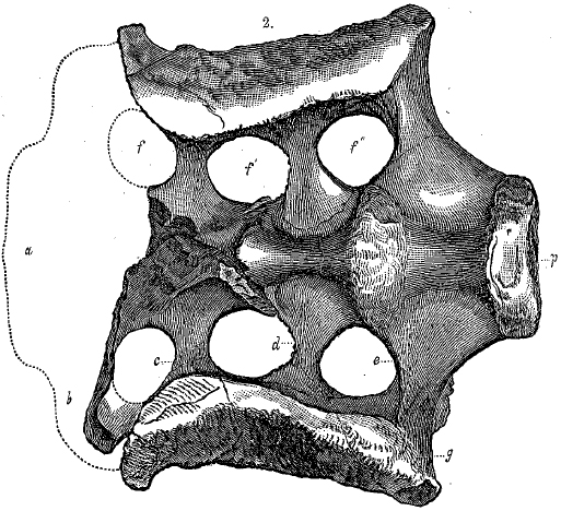 Sacrum of Atlantosaurus montanus; seen from below; one tenth natural size. a: first sacral vertebrae; b: transverse process of first vertebrae; c: transverse process of second vertebrae; d: transverse process of third vertebrae; e: transverse process of fourth vertebrae; f: ventral intracostal foramen; g: sacrocostal yoke; p: last sacral vertebrae.